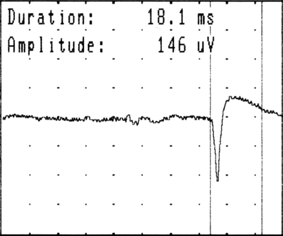 Positive sharp wave